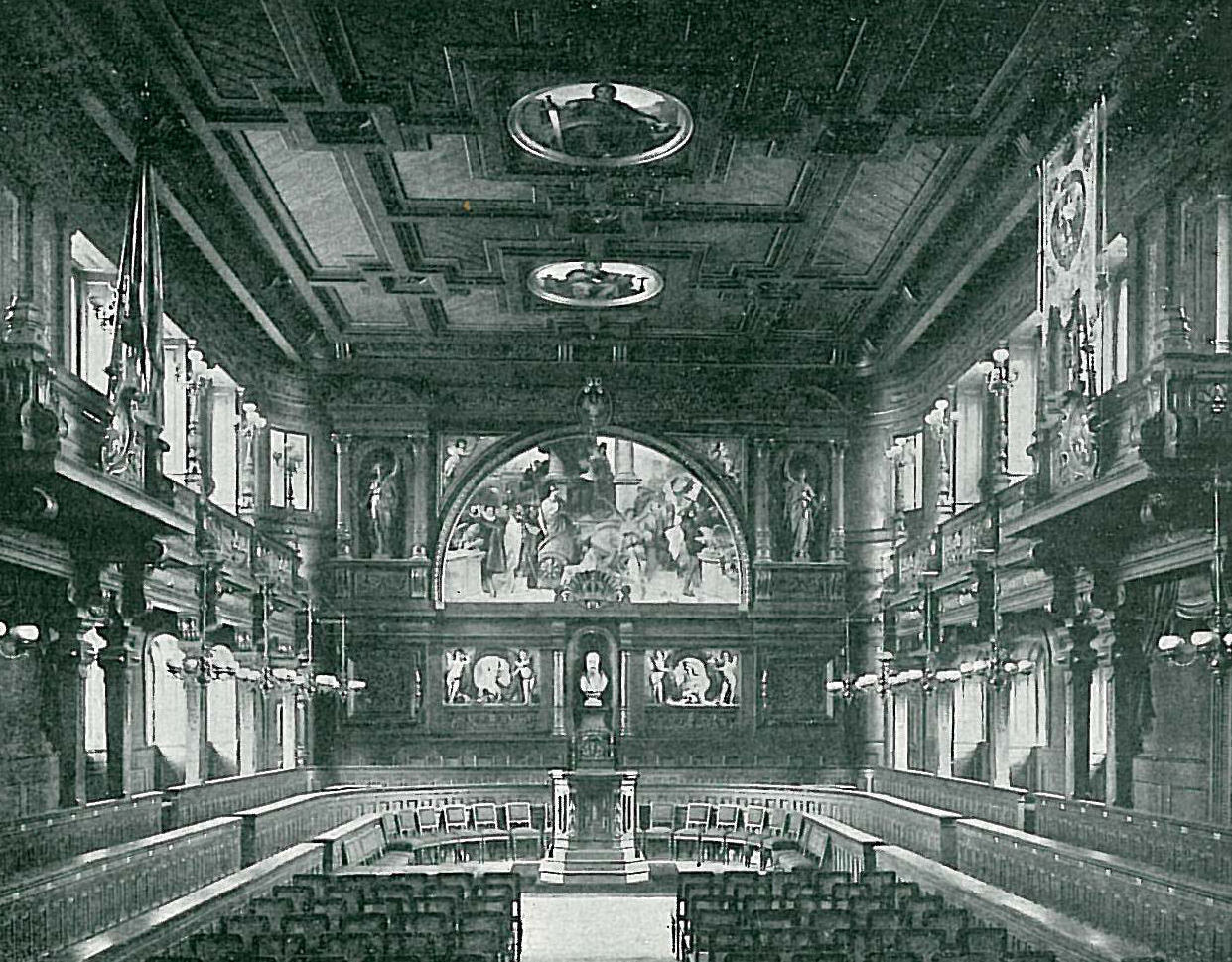 historical view of Heidelberg